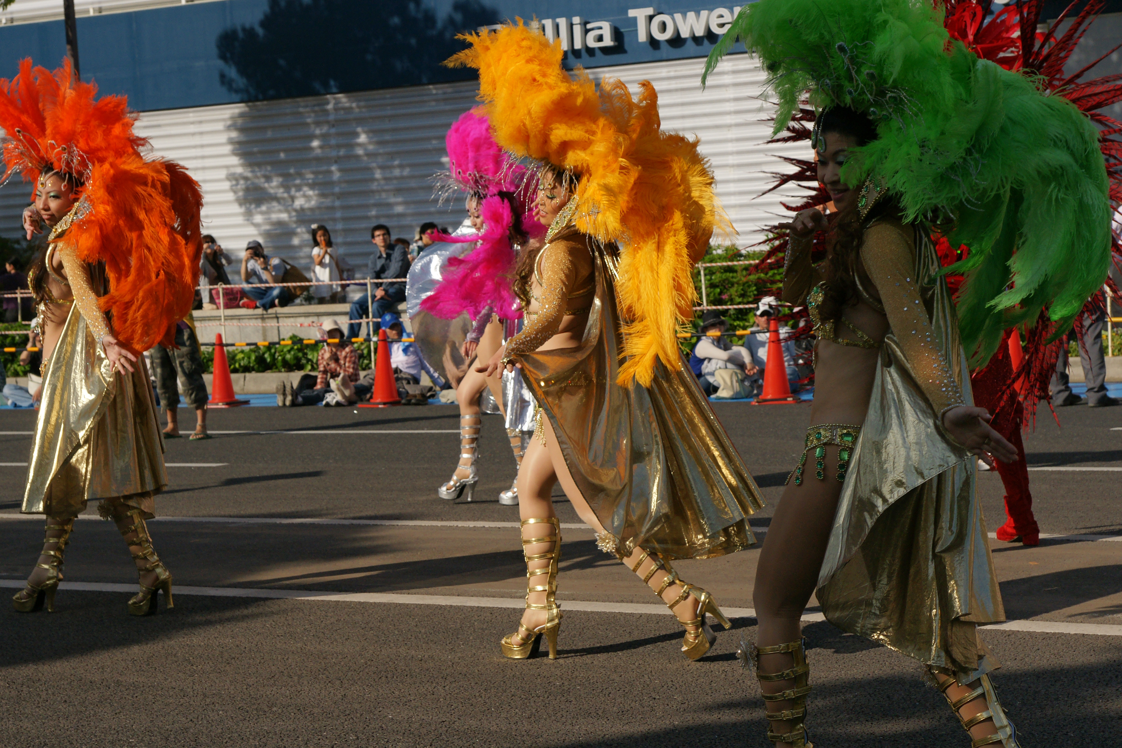 Kobe Matsuri at Kobe, Hyogo prefecture, Japan